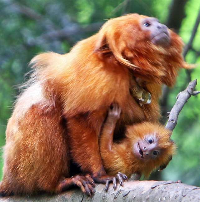 baby golden lion tamarin having fun hitching a ride with mom at the National Zoo in Washington, DC.